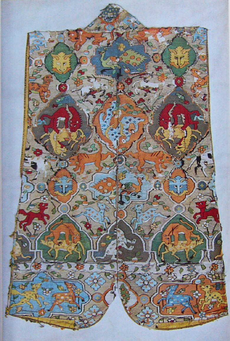 Jinbaori Vest with Bird and Animal Designs, Silk, tapestry weave (Kashan in Persia), Length: 99.4 cm Width across shoulder: 59.4 cm, Kodai-ji Temple, Kyoto,Japan, Legendly owned by Regent Toyotomi Hideyoshi